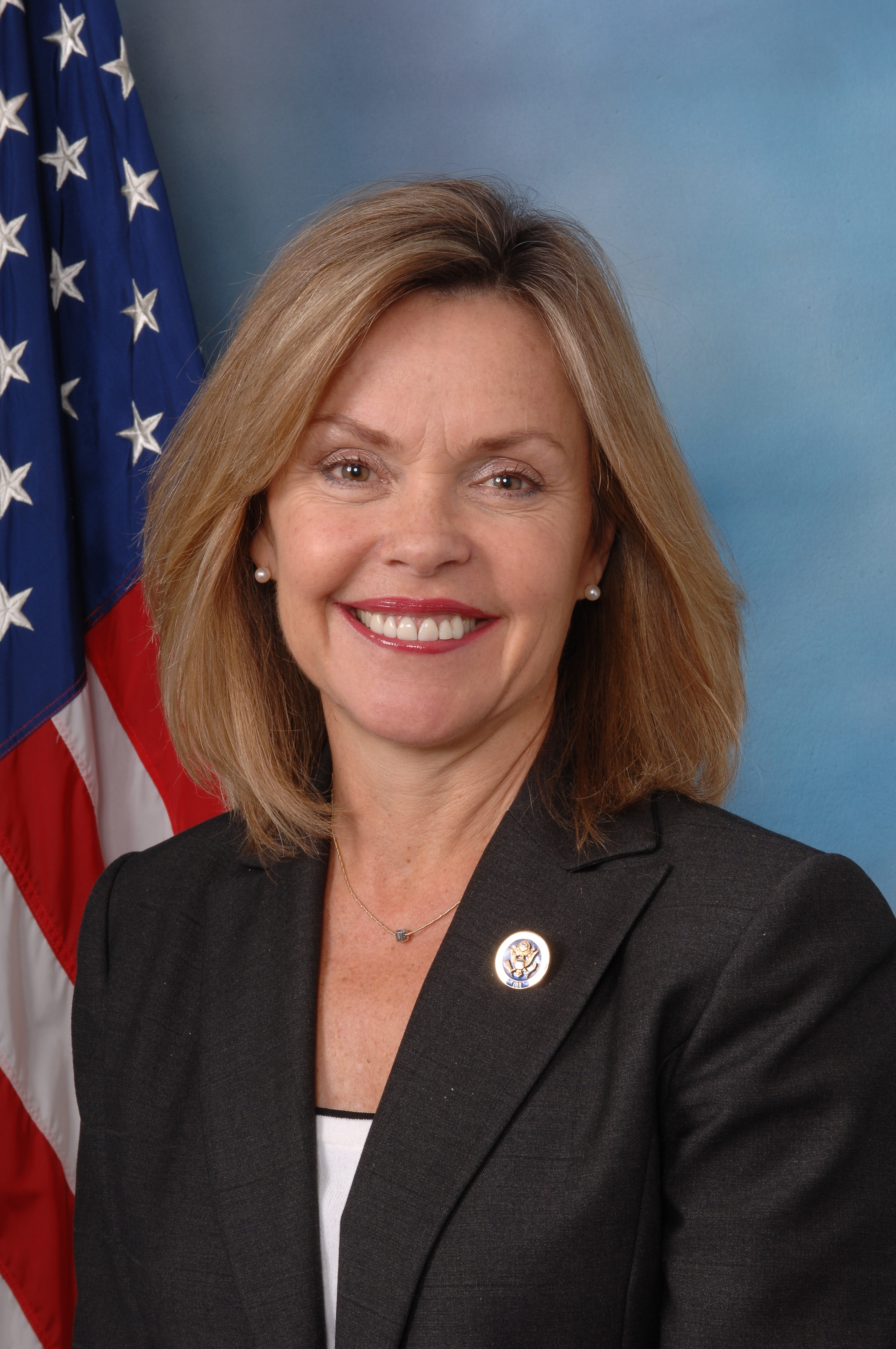 Portrait of Representative Betsy Markey